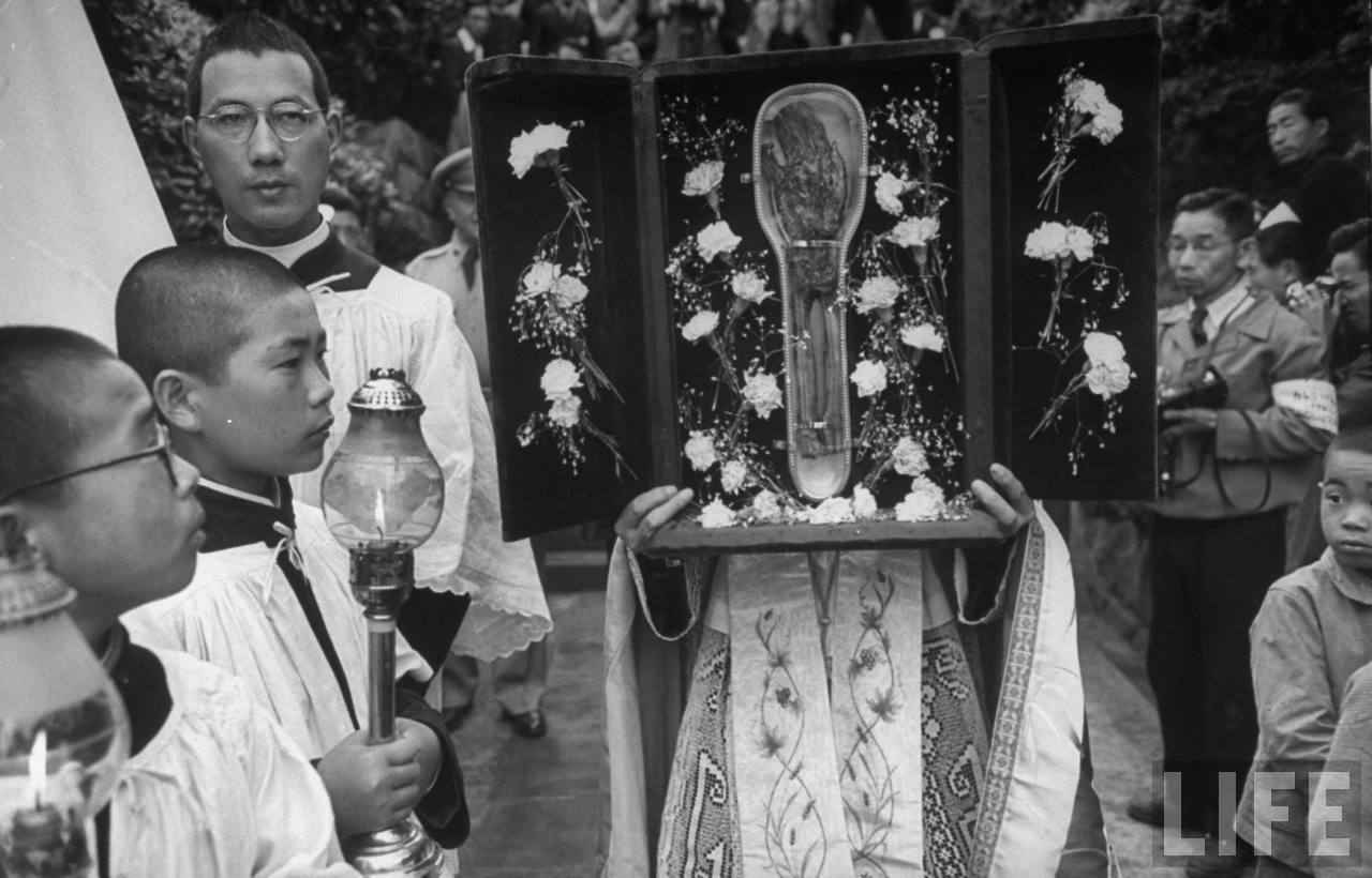 50 page of the 27 June 1947 issue of Life (magazine)